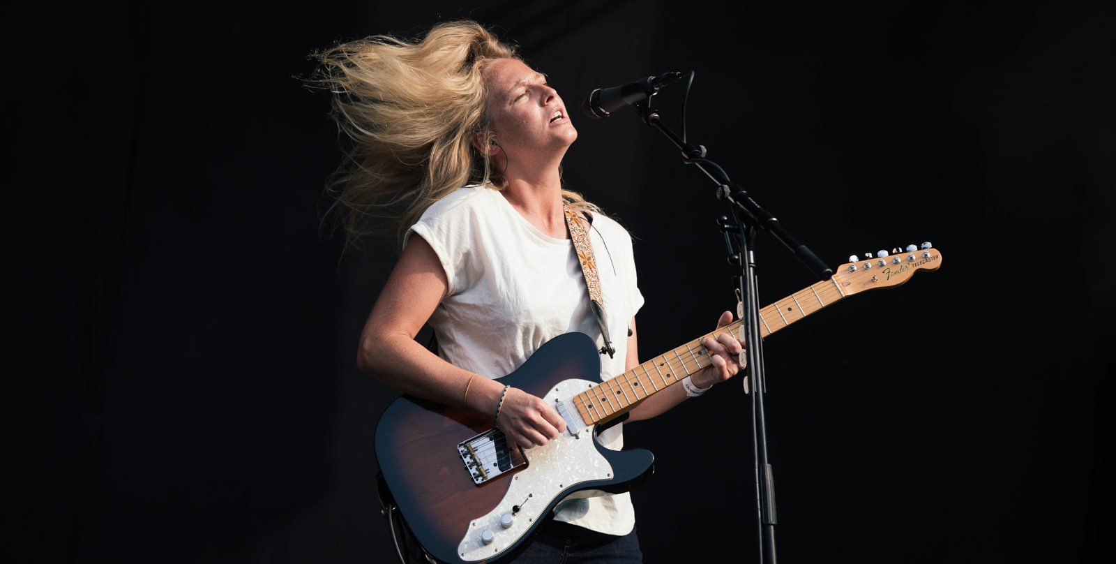 Lissie live at Odderøya Live 2013